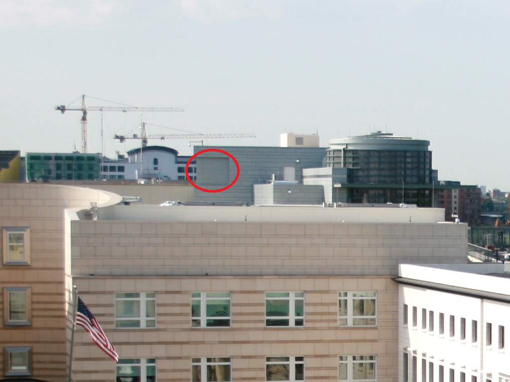 Northern view of the U.S. Embassy Berlin showing the mysteriously veneered penthouse rooms